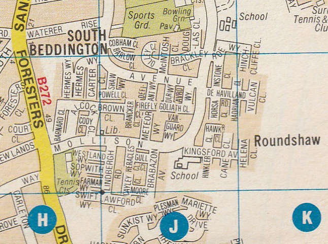 Roundshaw Estate as it appeared in the London A-Z map book - printed 1990.